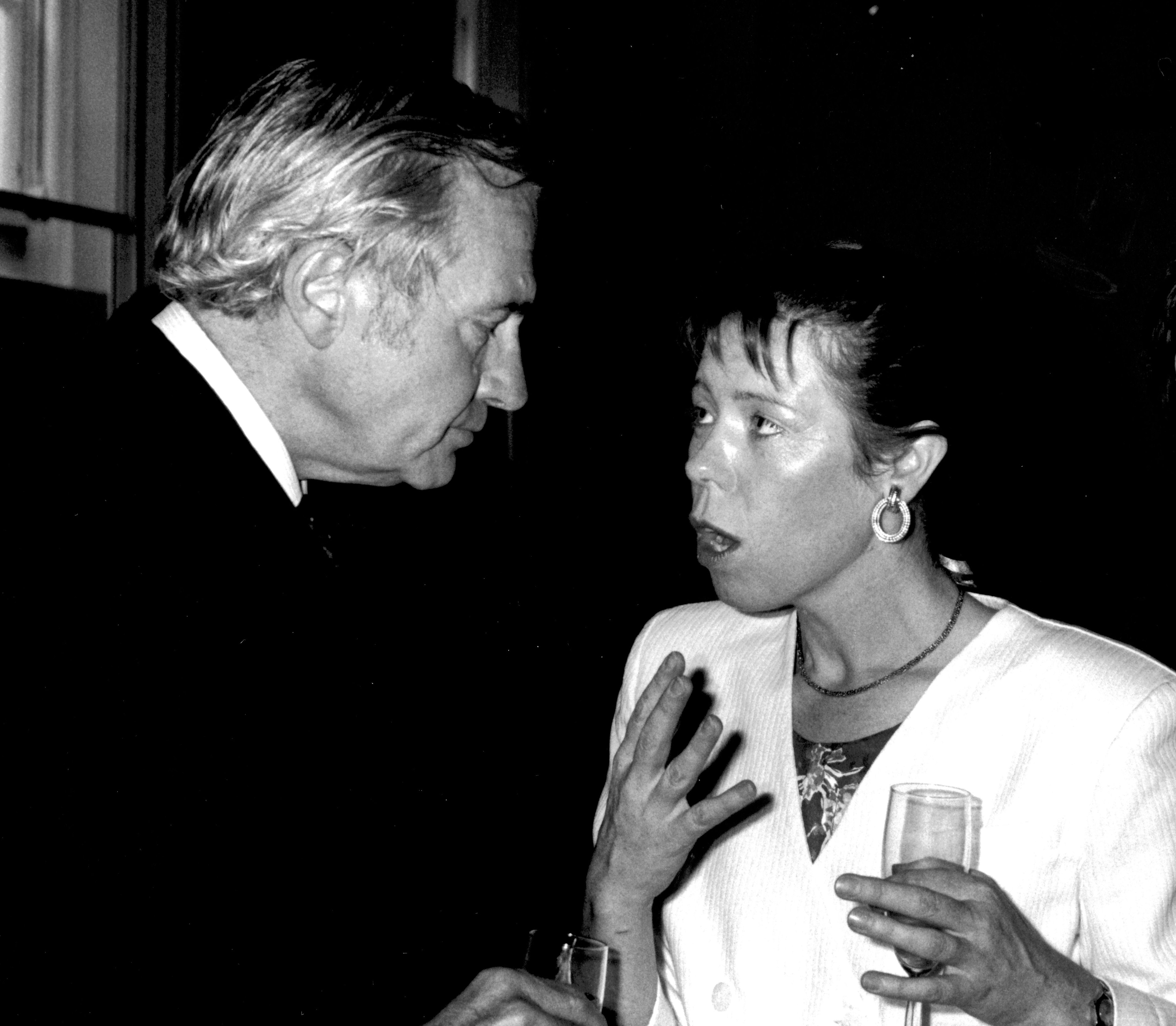 John Stonehouse at a party following a pilot episode of Channel 4's After Dark in 1987